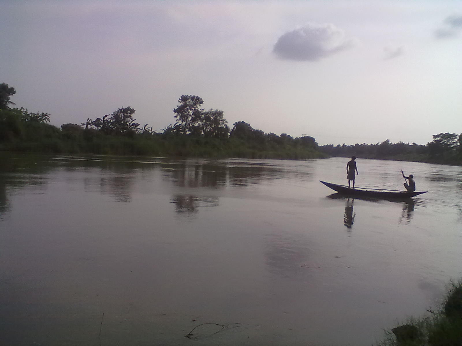 Damodar river